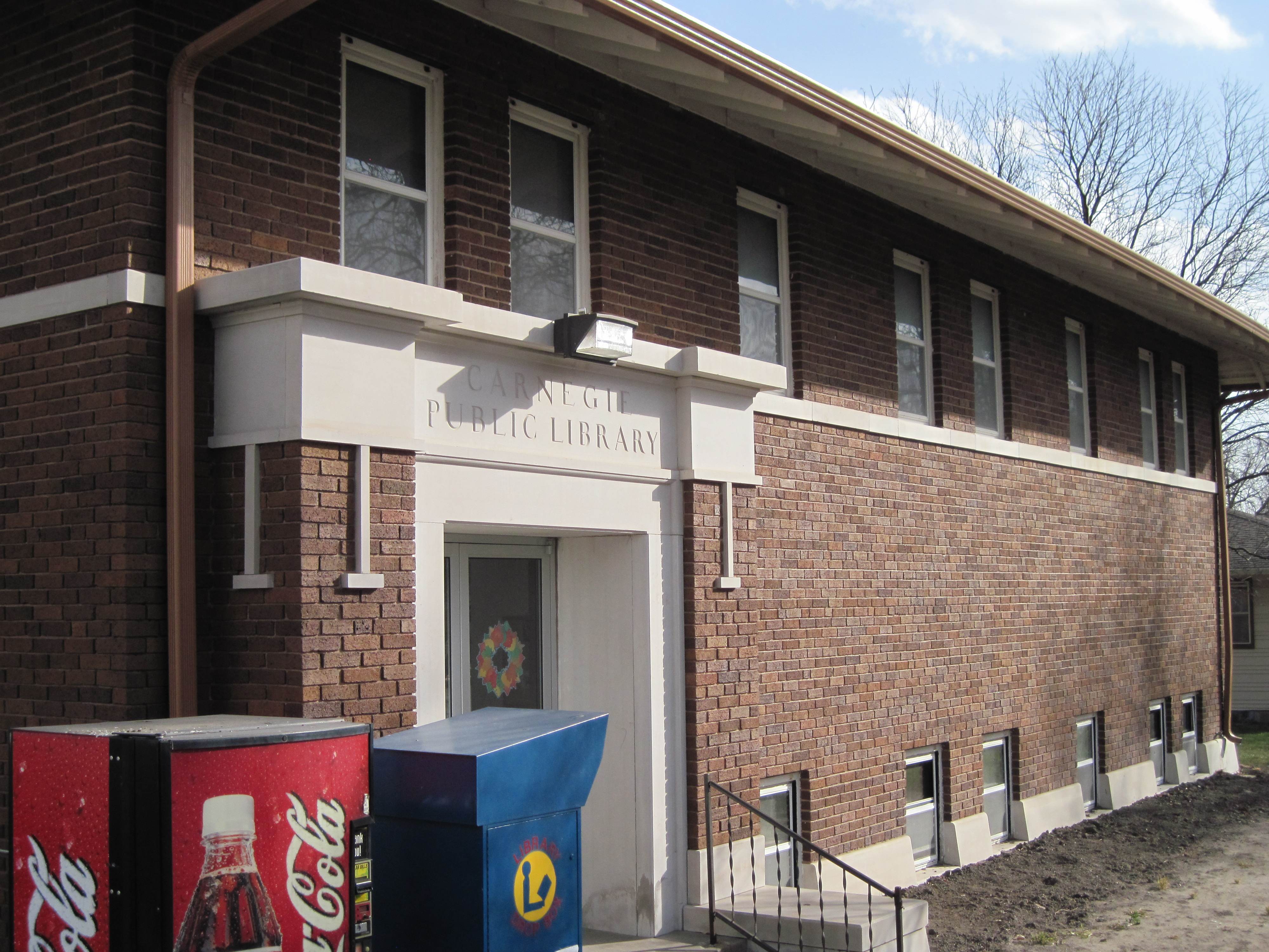 Shelton, Nebraska's Carnegie Public Library. This library serves Shelton Township.